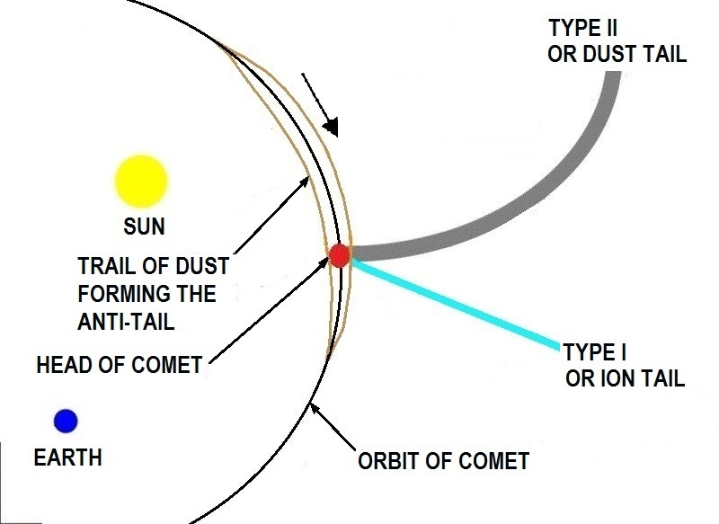 how an anti-tail may appear